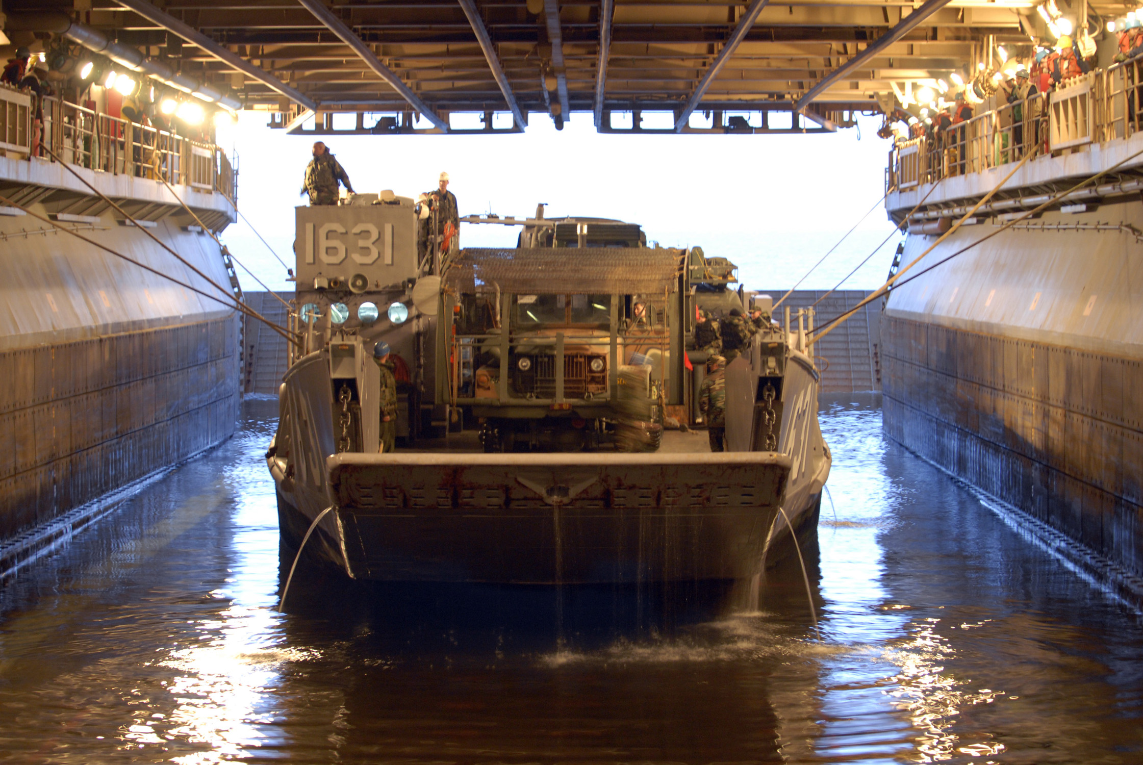 A landing craft utility prepares to depart the well deck of amphibious assault ship USS Essex loaded with combat vehicles in support of Foal Eagle 2007 near Pohang, Republic of Korea.